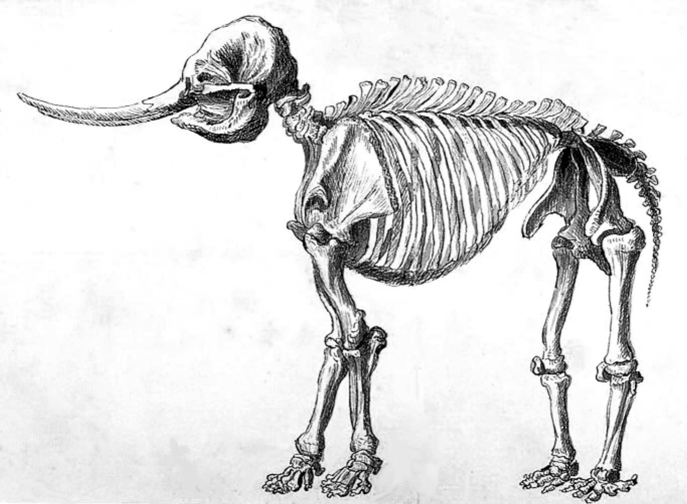 a cleaned up and simplified version of Rembrandt Peale's sketch of a mastodon skeleton